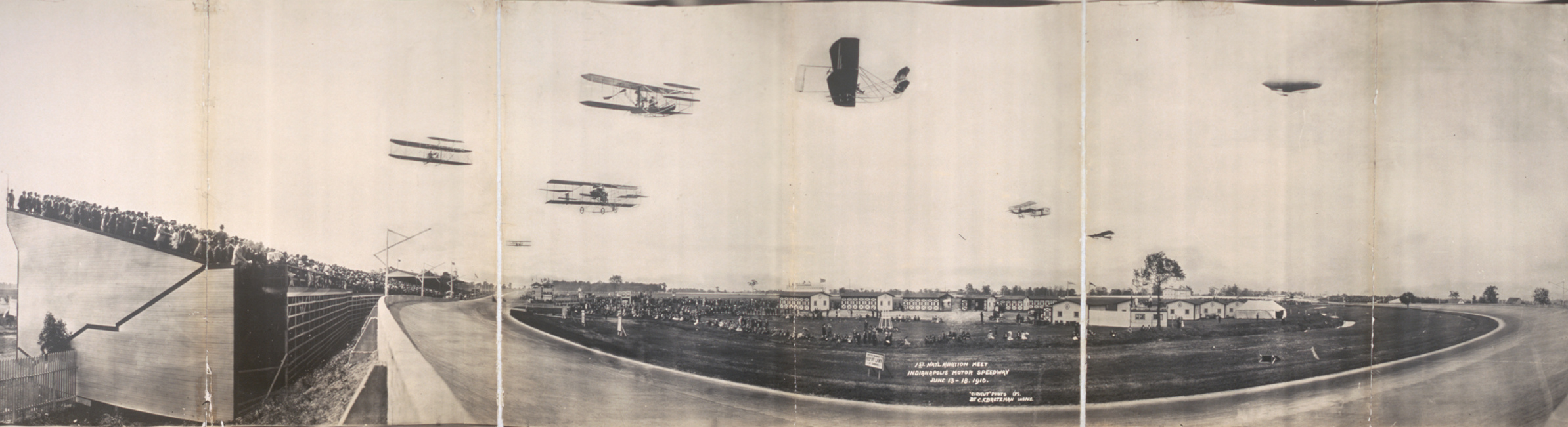 1st Nat'l Aviation Meet, Indianapolis Motor Speedway, June 13-18, 1910